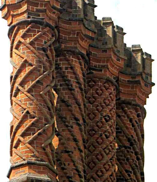 Bill Bradley, aka builderbll, billbeee My own work Feel free to use the work without removing my attribution. You can contact me at my website for higher definition images.My site.)